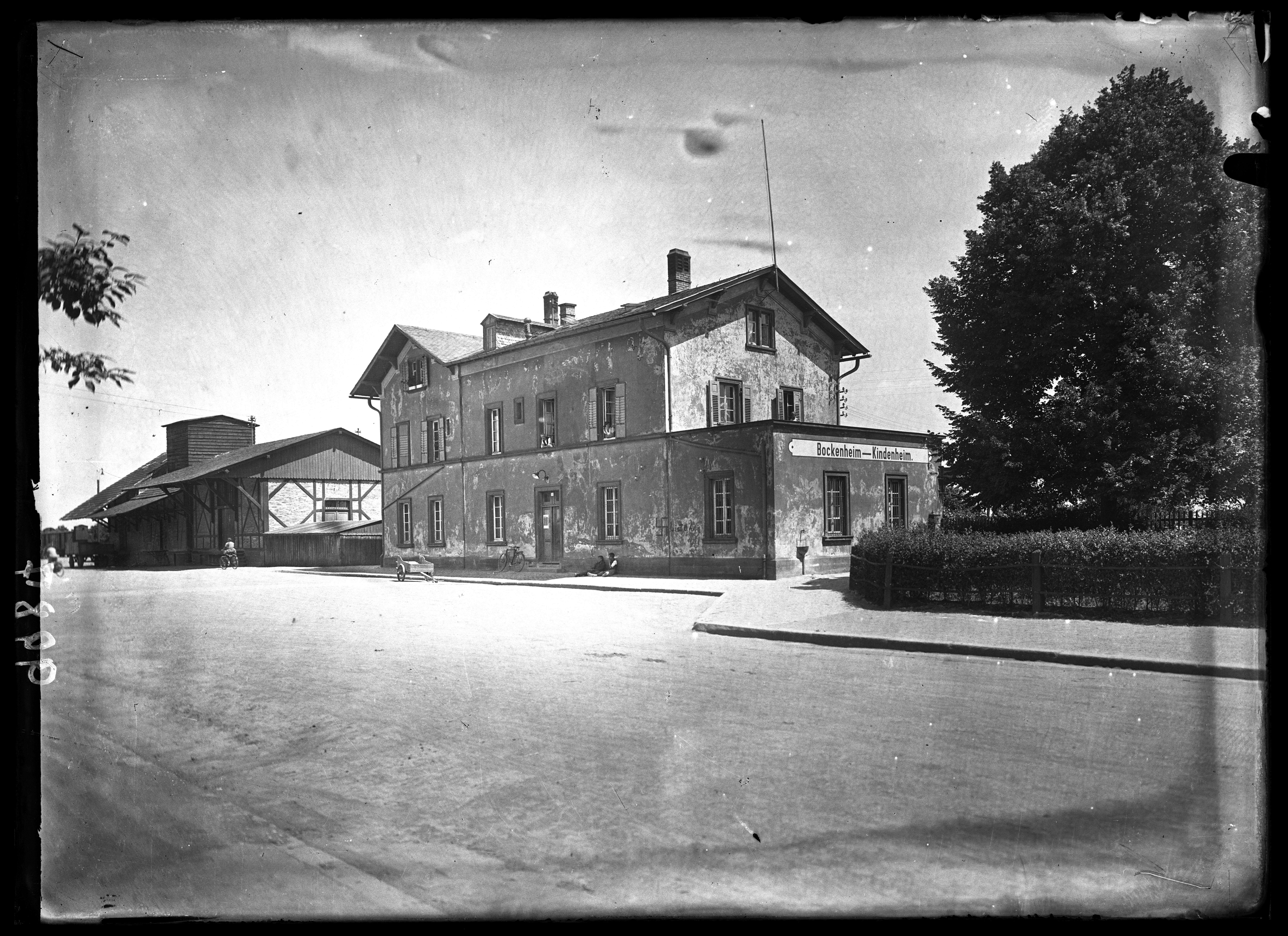 Station building of Bockenheim-Kindenheim